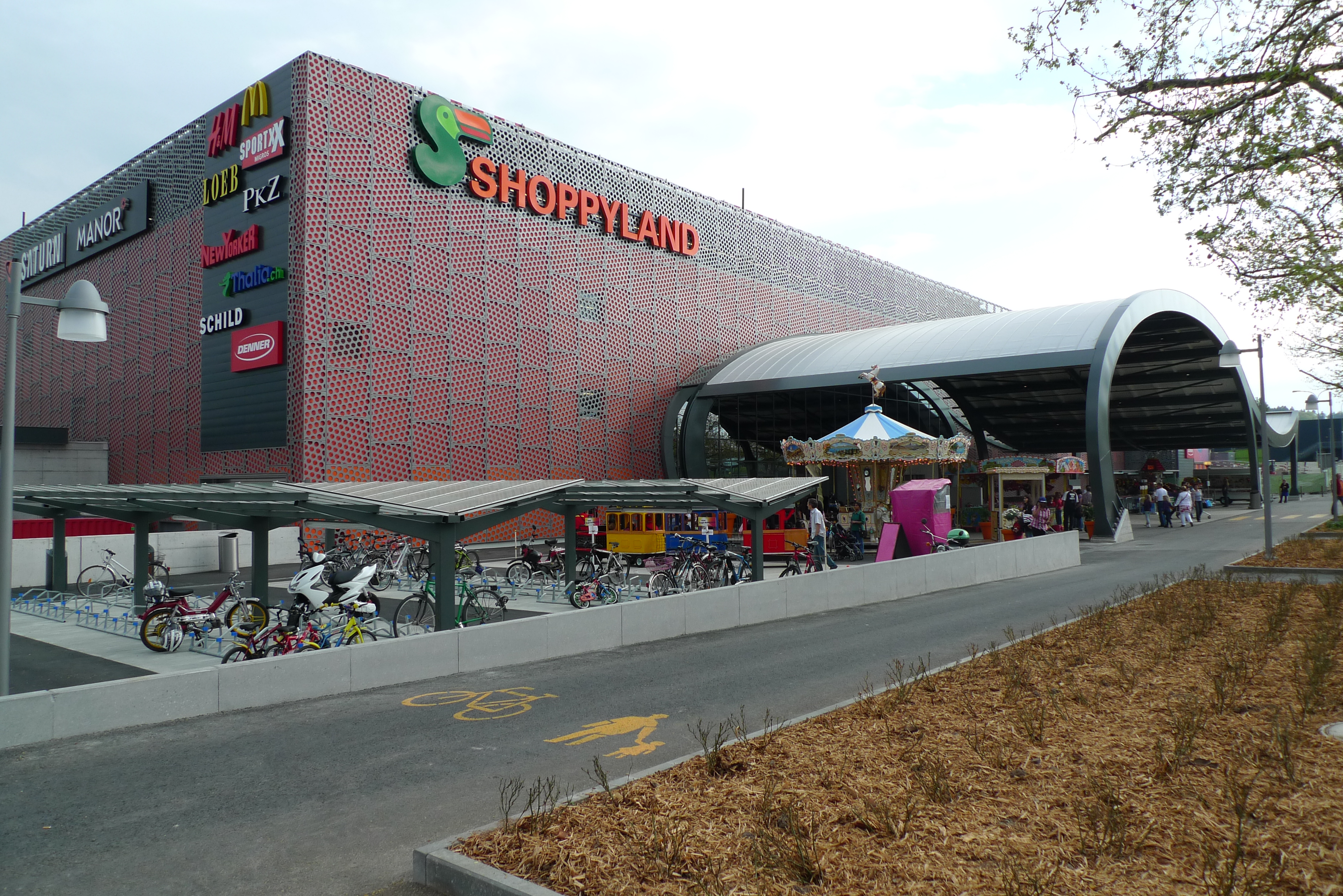 "Shoppyland" shopping mall at Schönbühl near Bern, Switzerland.